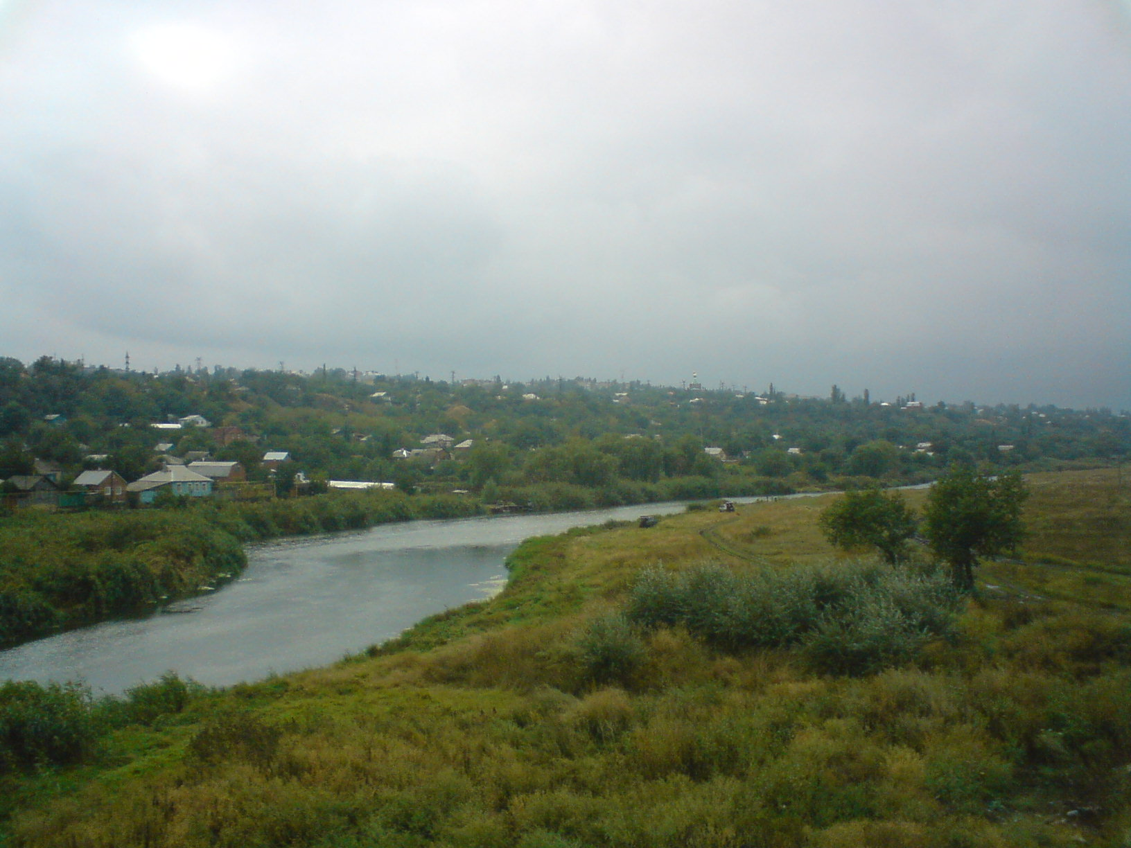 Tuzlov river in Novocherkassk